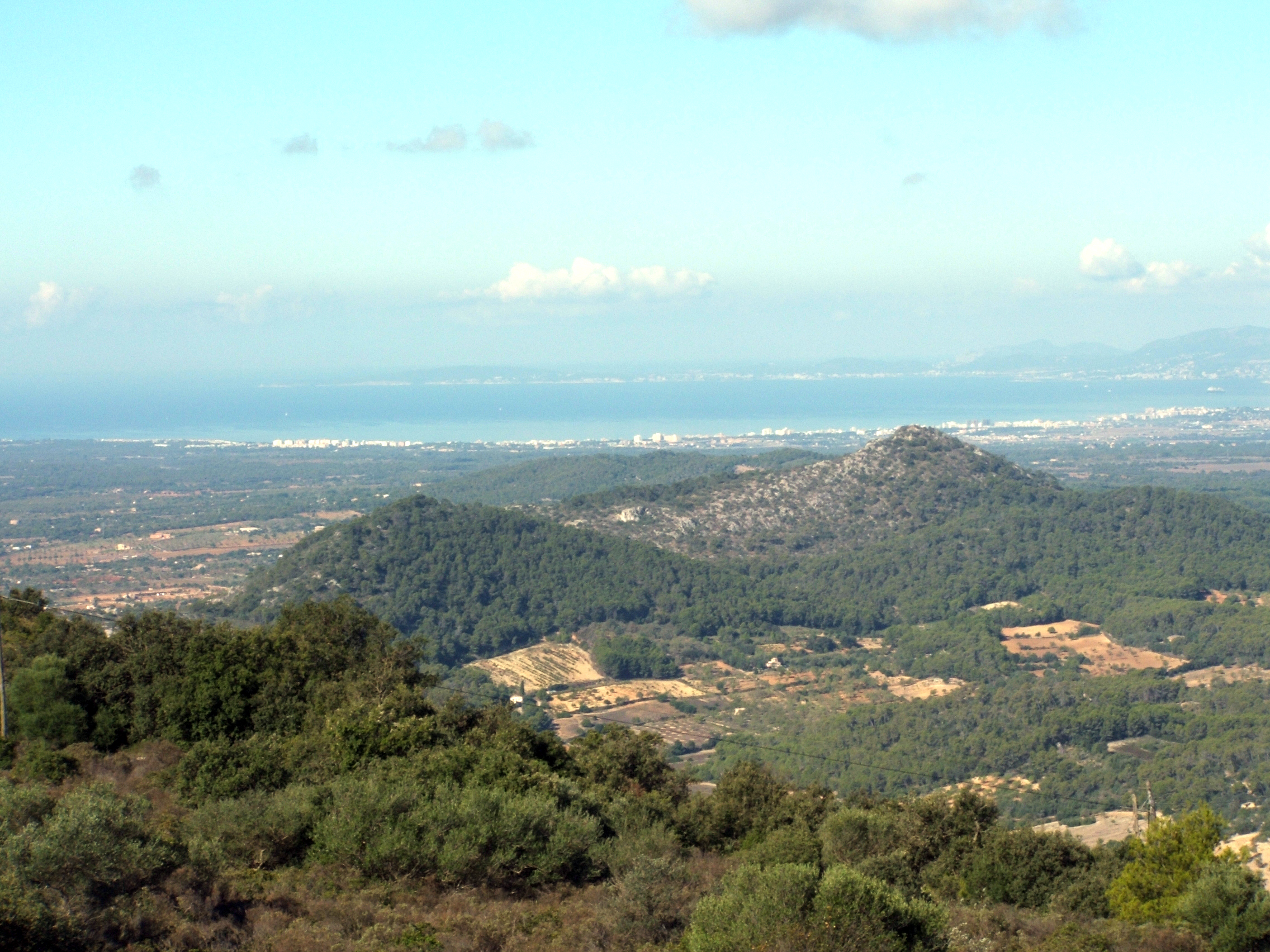 View over Mallorca from Puig de Randa